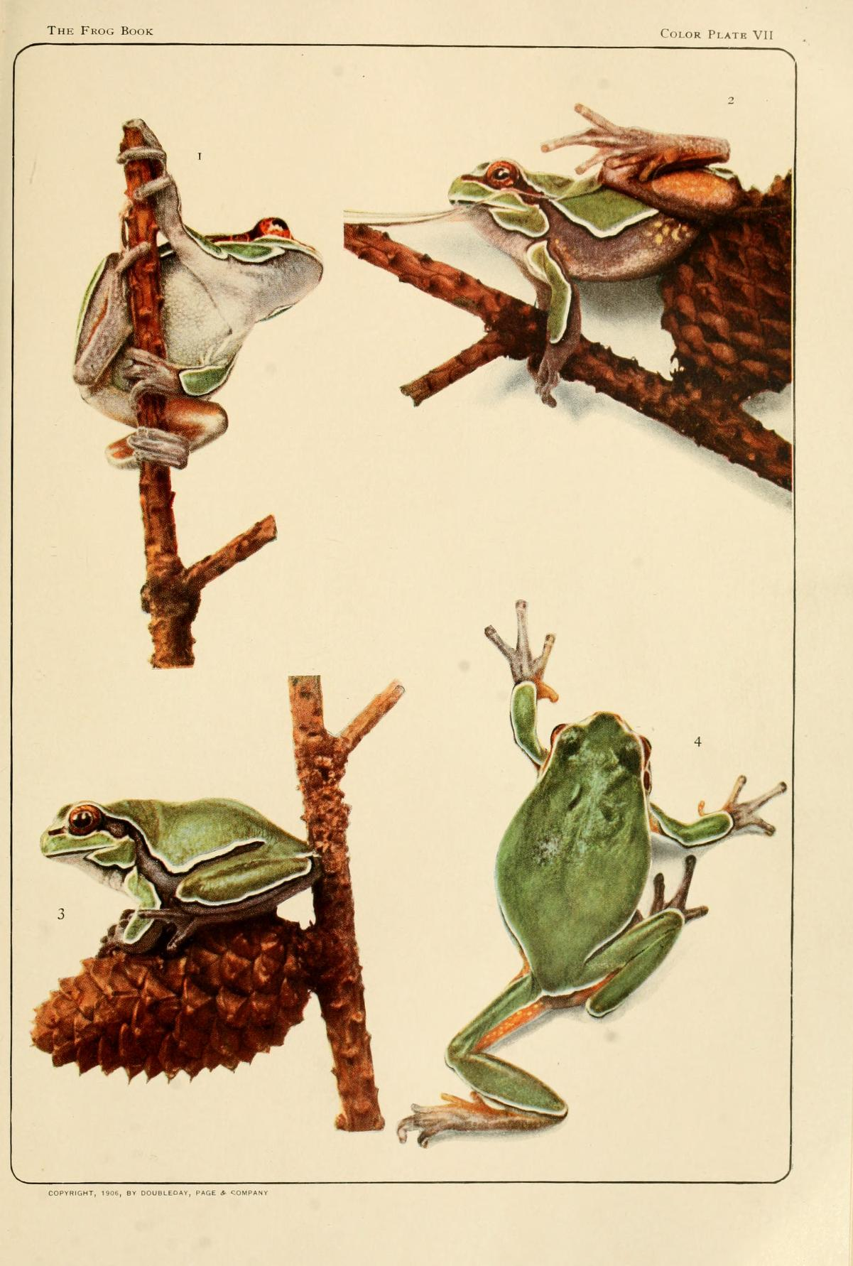 Hyla Andersonii Baird. Female. Lakehurst, N. J. Photographed to show exact coloration. Fig. 1. — Ready to leap. Photographed to show underparts. Fig. 2. — In water. Photographed to show spots concealed under arm and leg ; also foot structure. Fig. 3. — Side view on pine cone. Fig. 4. — To show body proportions ; also coloring of hand and foot.